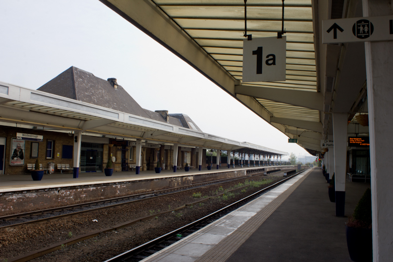 Middlesbrough railway station.